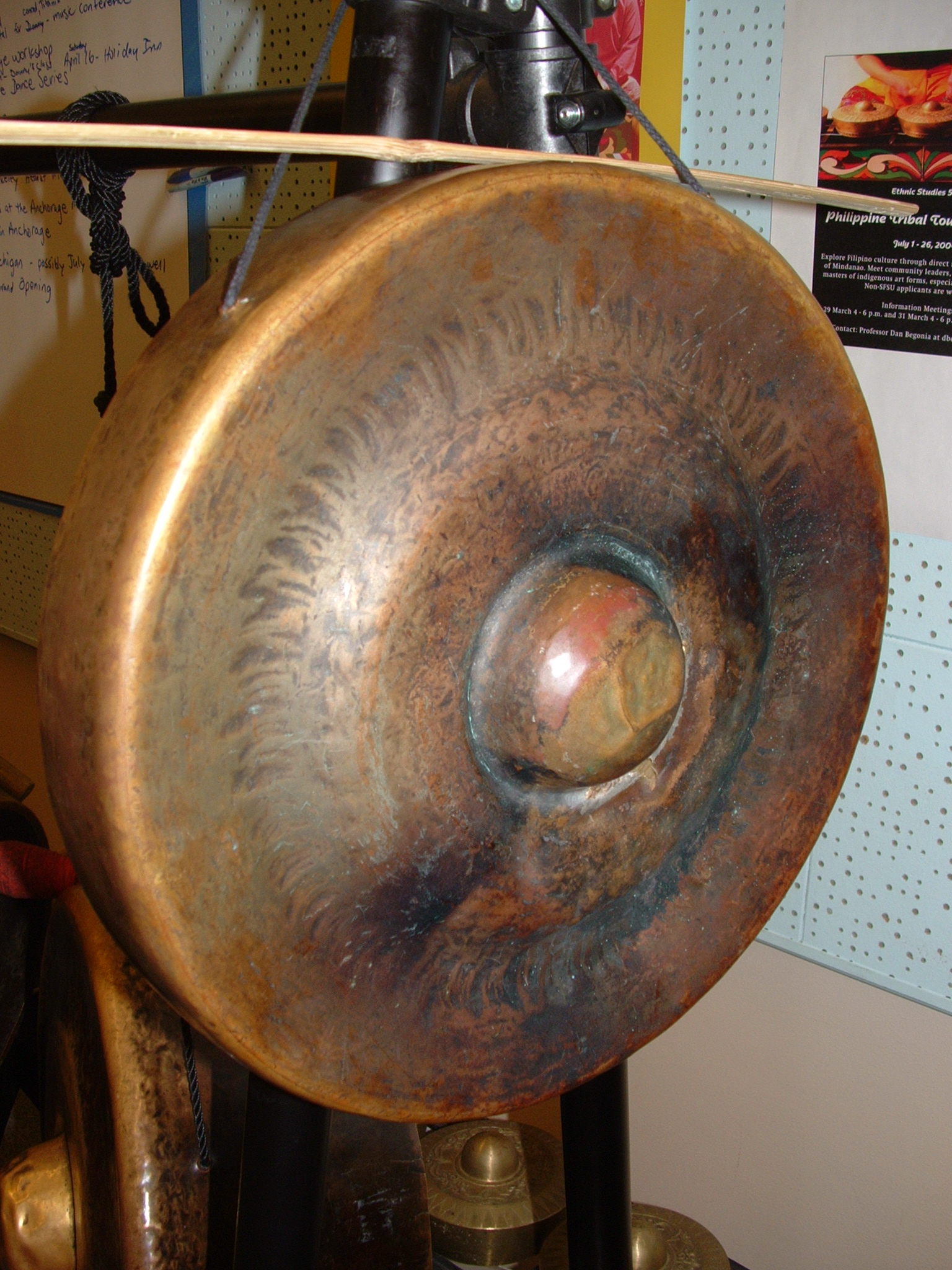 The singular Philippine handheld gong known as the babendil used as a "timepiece" in the kulintang ensemble. This instrument in particular is used by Master Danongan Kalanduyan at San Francisco State to teach his kulintang class.